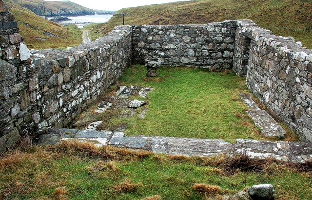 Kilchiaran Chapel Interior Looking from the altar end of the chapel. The entry door is on the right hand side of this shot. Kilchiaran Chapel belongs to the period when the Lords Of The Isles ruled Islay, between AD1156 & 1493. (Source: "Islay" by Norman S Newton).